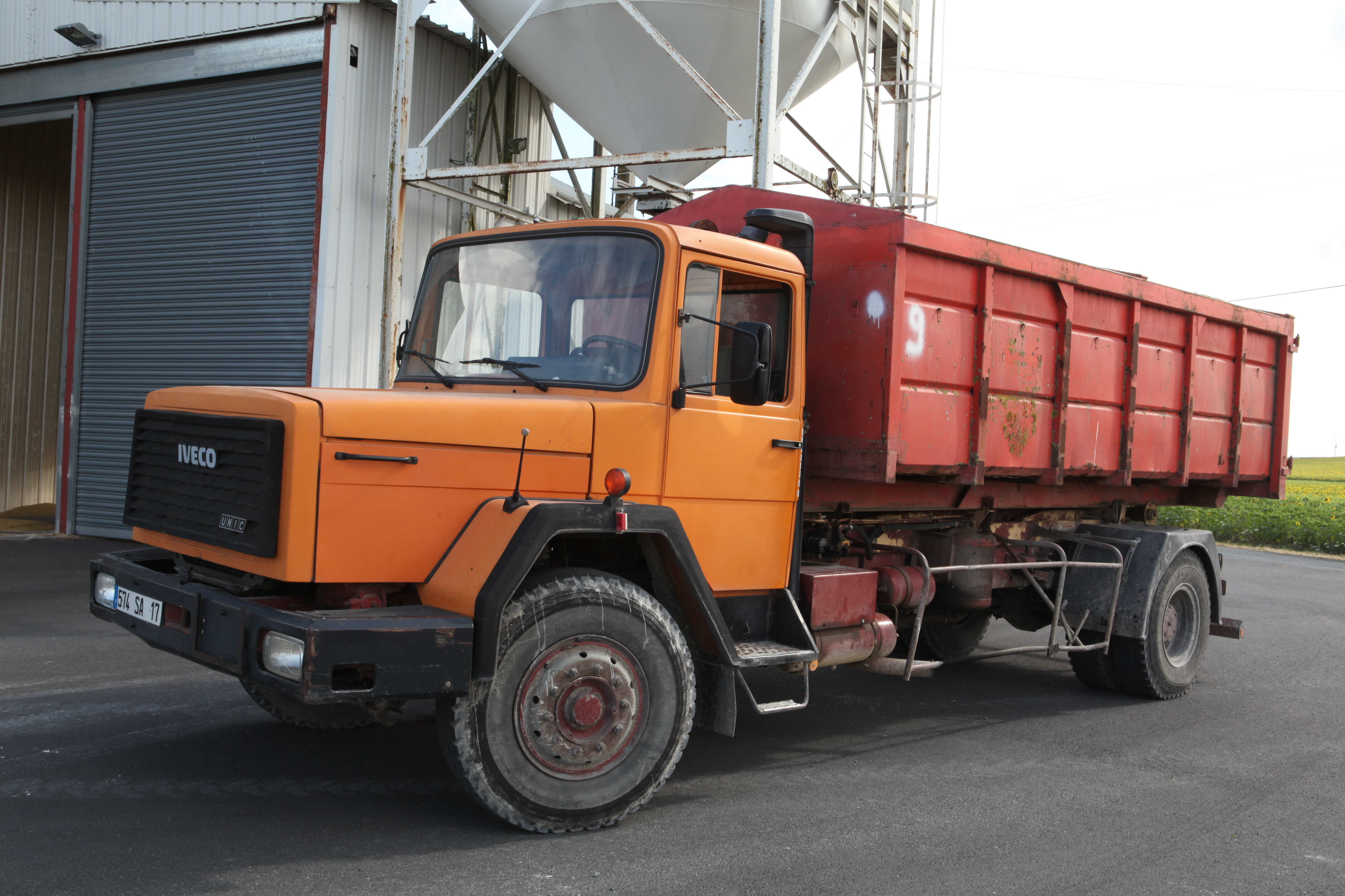 IVECO Unic